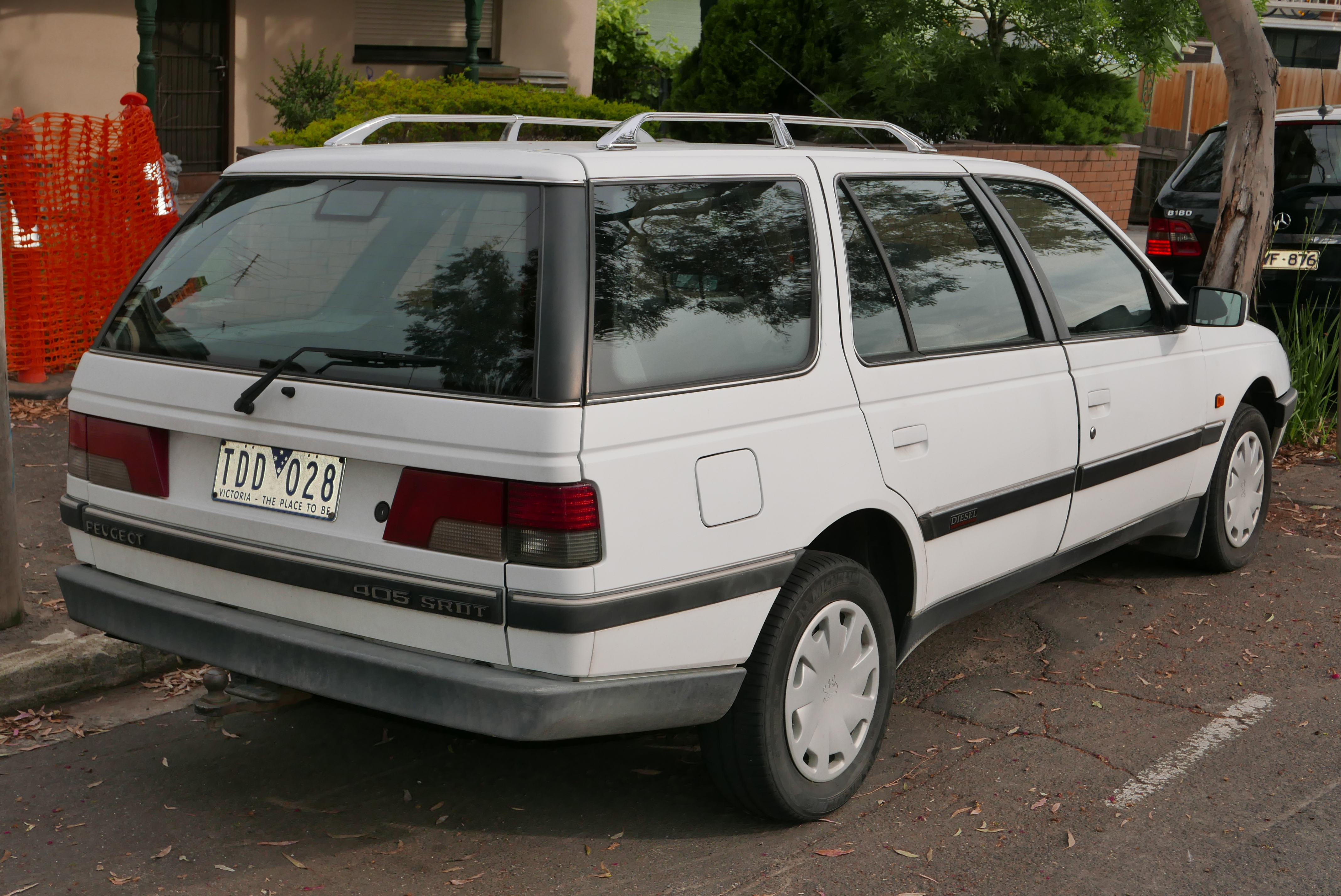 1995 Peugeot 405 (D70) SRDT station wagon. Photographed in Flemington, Victoria, Australia. Vehicle registration enquiry results Jurisdiction Victoria Registration TDD028 Chassis code VF34ED8A271527609 Engine code 10CU934005217 Compliance date 1995-09 Year of manufacture 1995